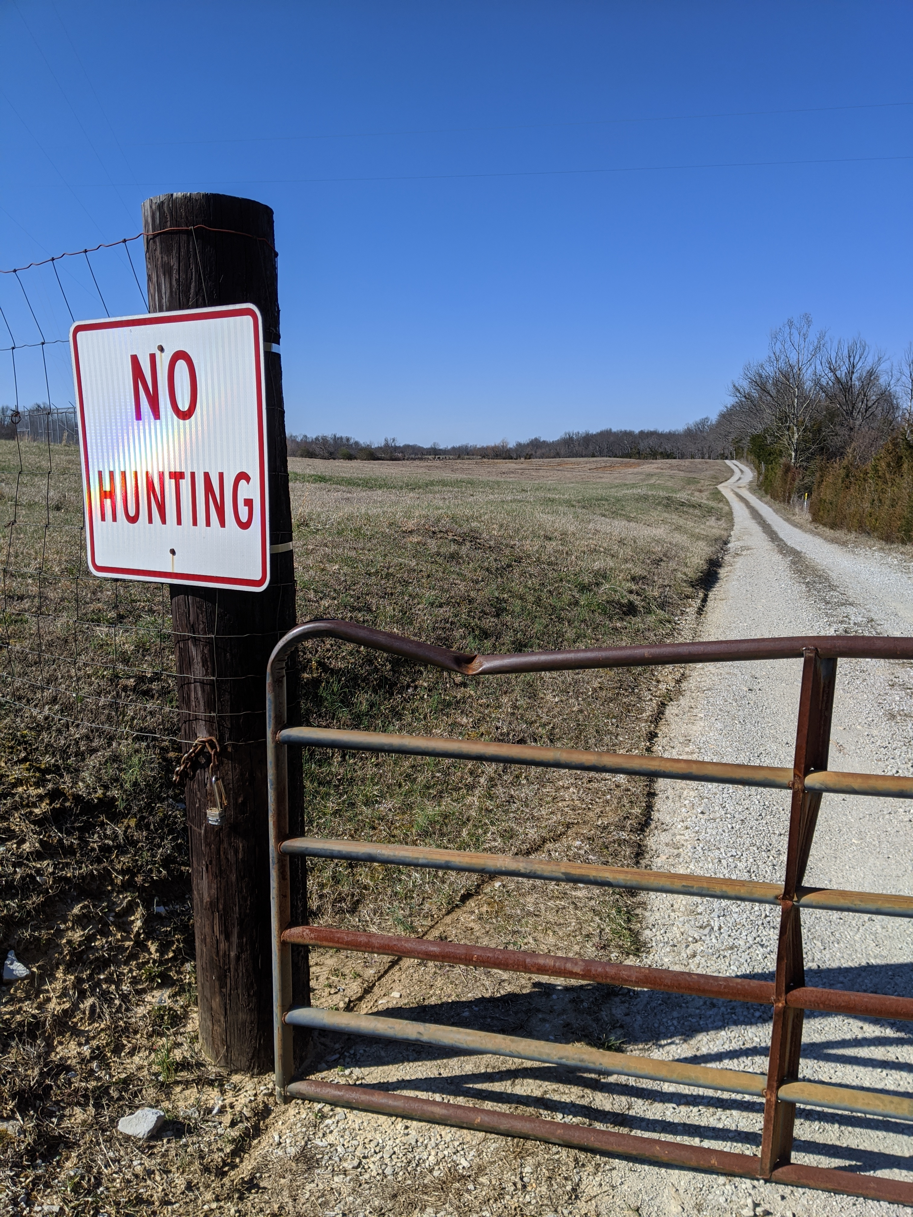 Depicts the entrance to the Glen Lily Landfill as it appeared on March 7, 2020. A gravel road blocked by a gate with a 'No Hunting' sign affixed to a fence post.